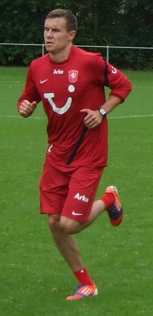 FC Twente player Andreas Bjelland